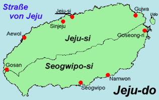 area map of Jeju Special Self-governing Province subdivision map